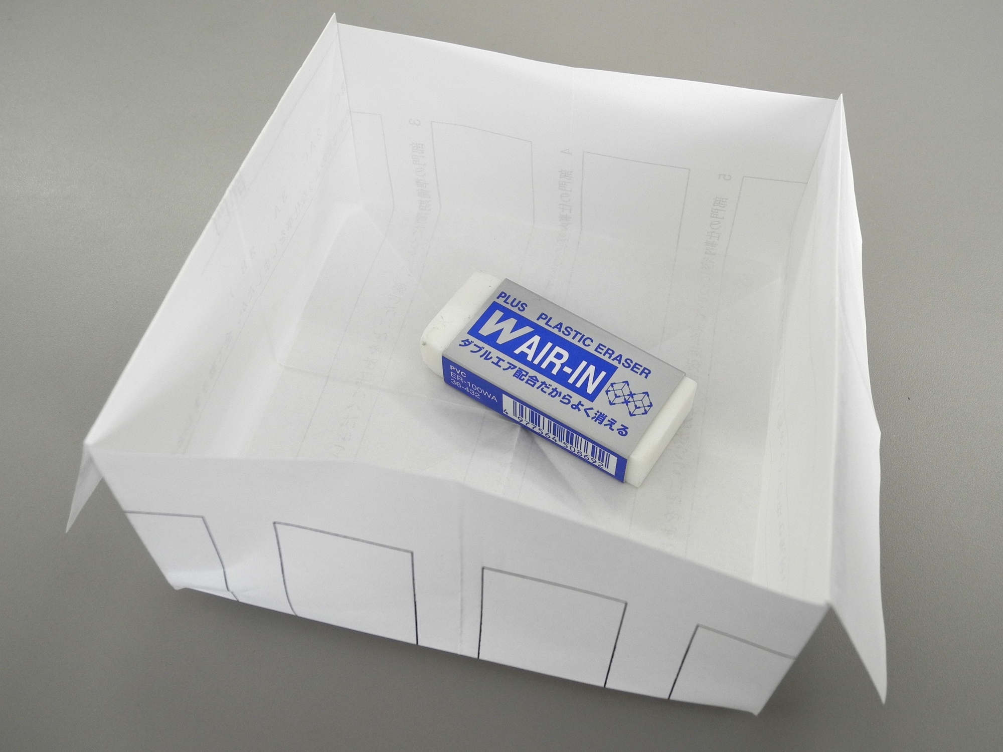 A white origami box made from a sheet of used white A4 paper. There's an eraser in the box.